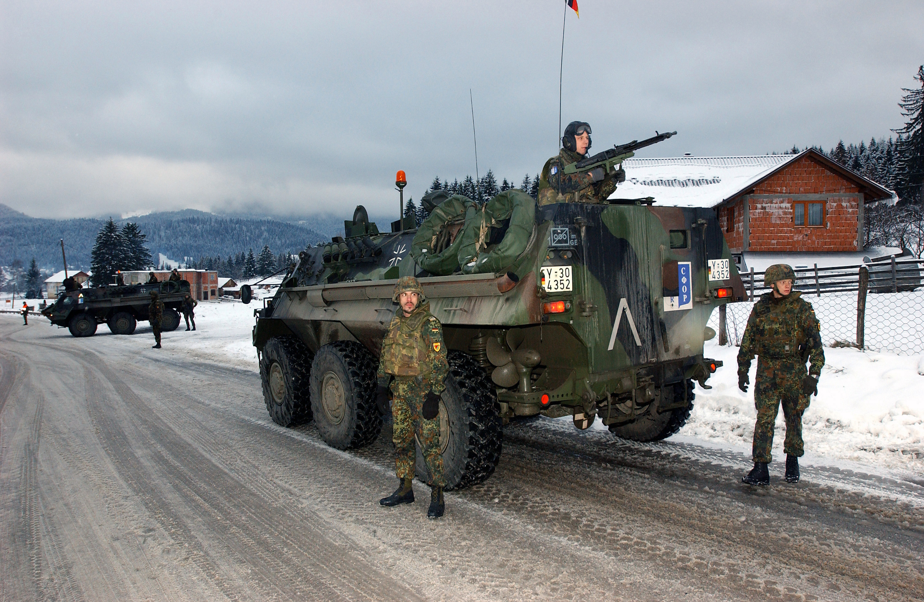 German forces with a pair of Henschel Wehrtechnik Transportpanzer 1 (Fuchs) armored personnel carriers guard the town entrance and check vehicles as the teams search the area for war criminals. Members from the Stabilization Force (SFOR) Bosnia search for information regarding Persons Indicted for War Crimes (PIFWC) in the town of Pale, Bosnia during Operation JOINT FORGE.